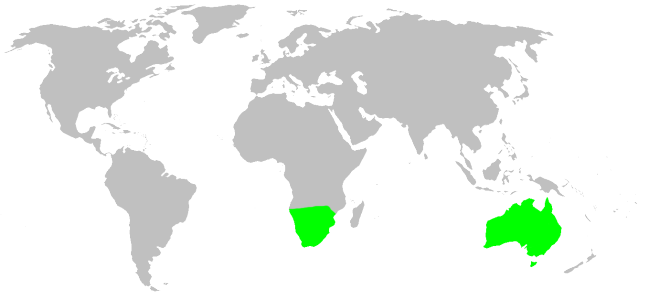 Ammoxenidae habitat distribution, drawn after Platnick: World Spider Catalog 7.0. This is not at all a precise rendering of the distribution! If you have better information, please replace this map, or send me the info, and i will redraw it.